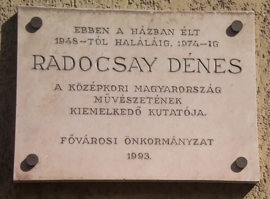 Dénes Radocsay commemorative plaque in Budapest District XII, Kékgolyó Street No 20.